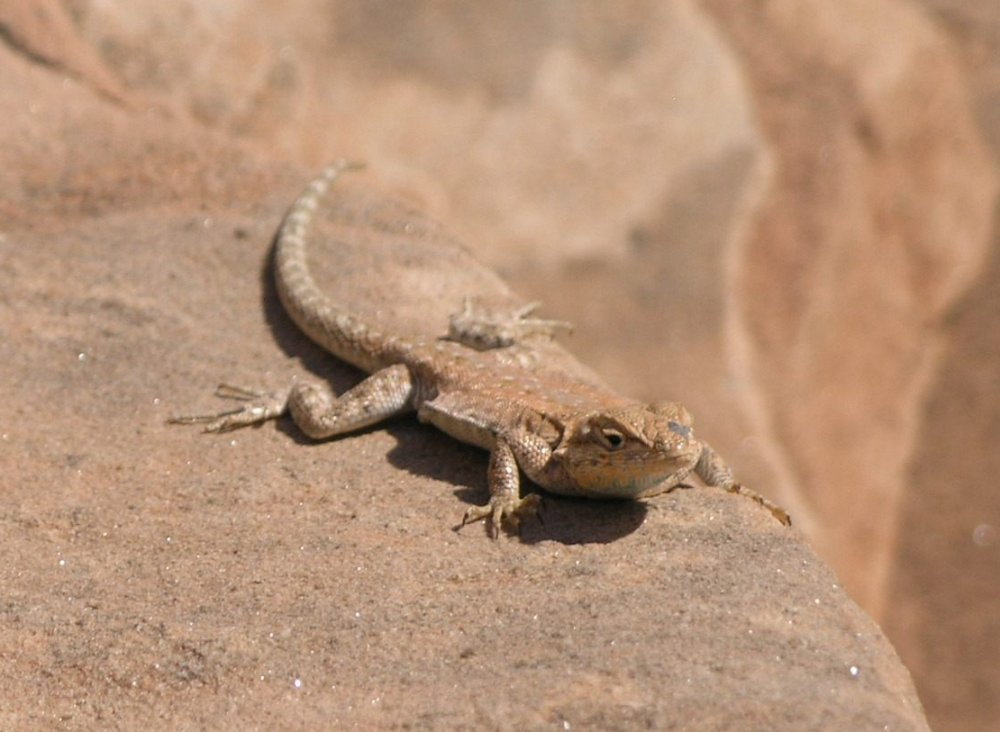 Photo taken by Daniel Mayer in late June 2005.